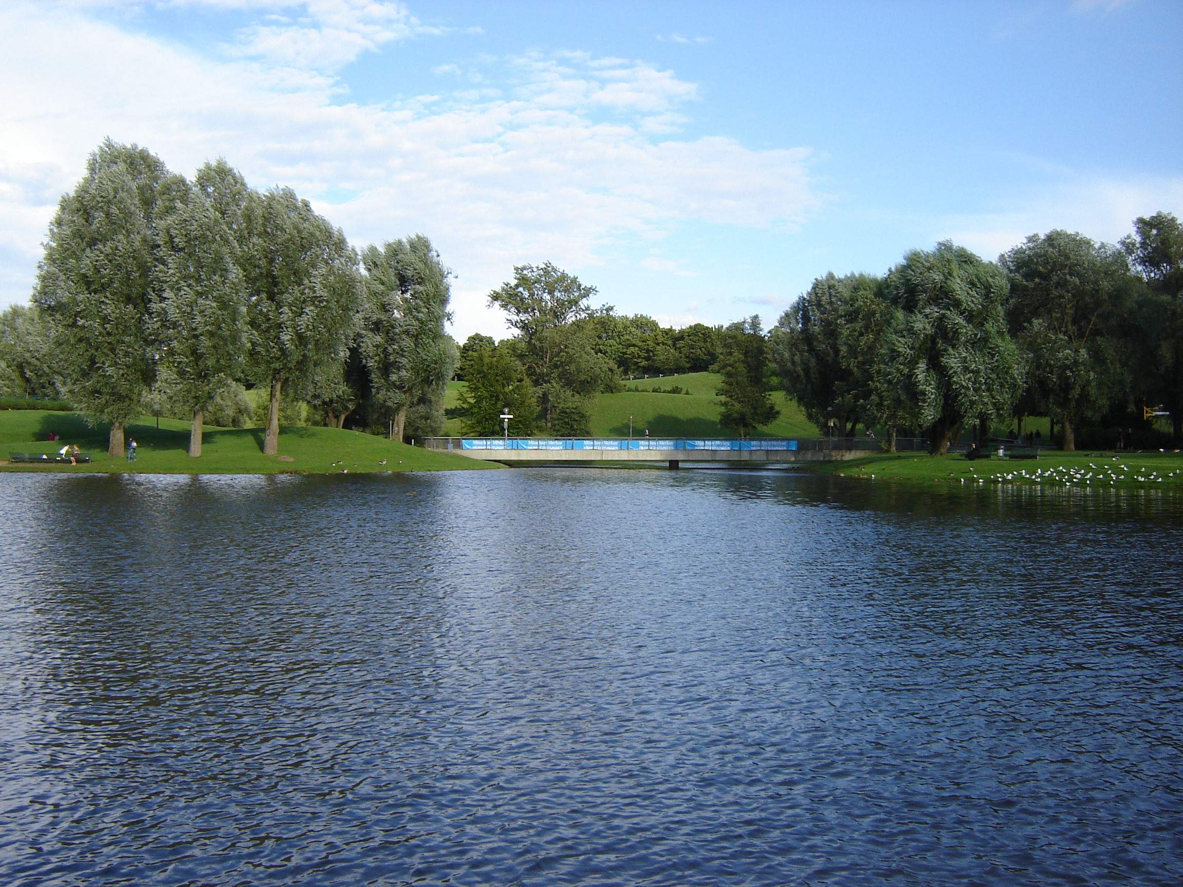 Olympiasee in Olympiapark Munich